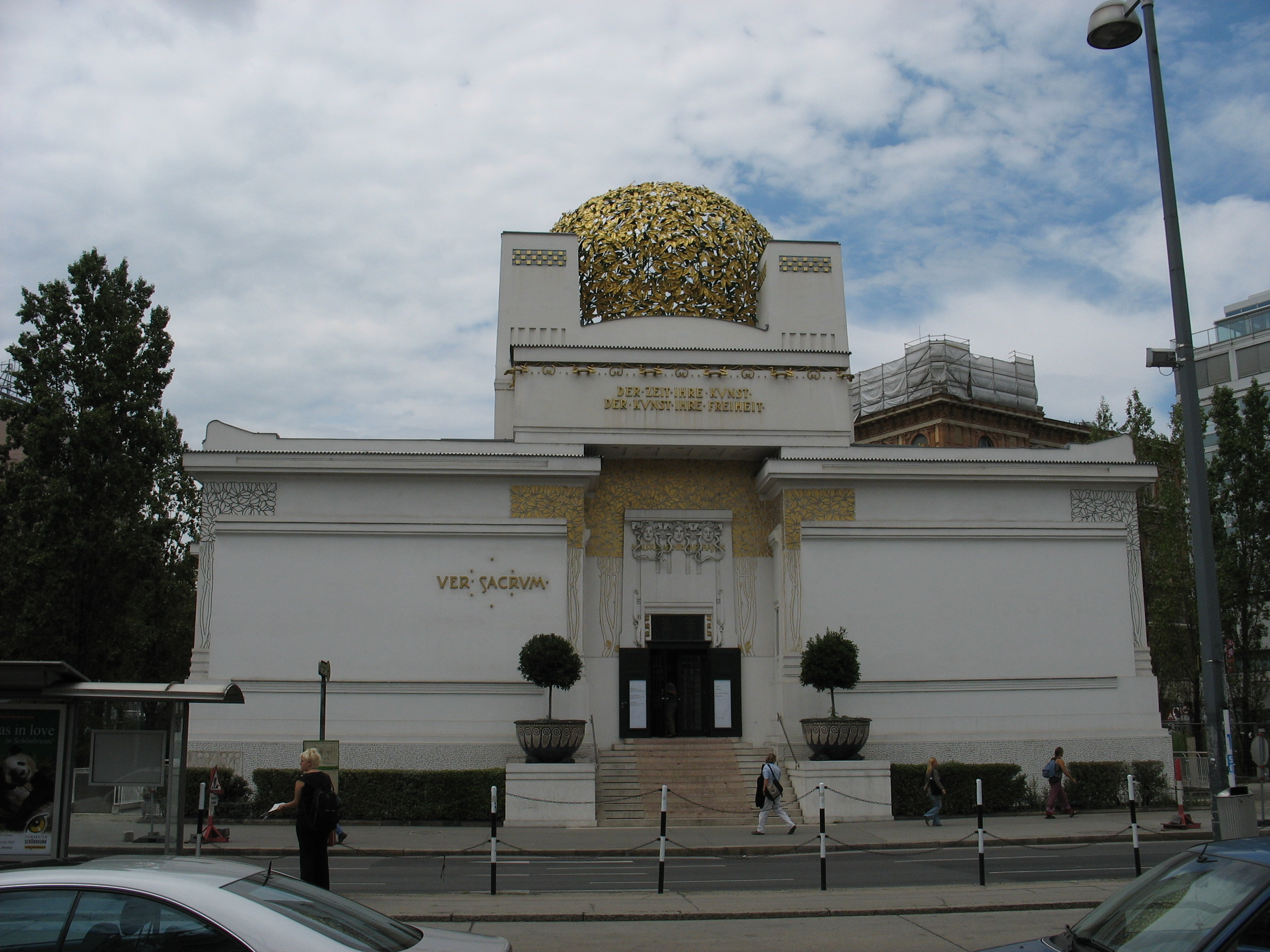 Austria, Vienna, Secession hall